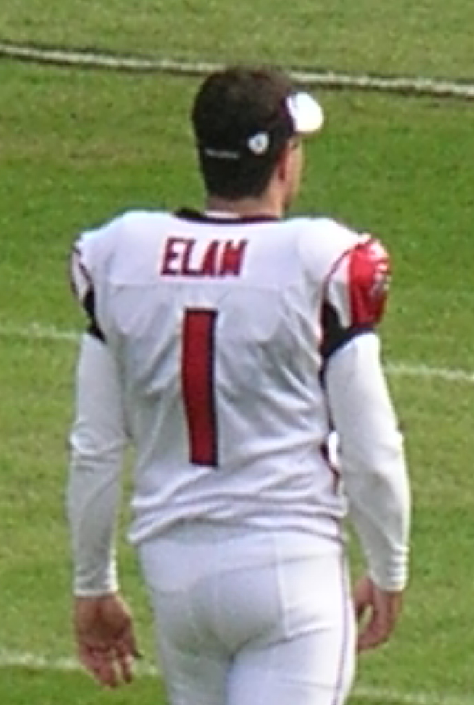 Atlanta Falcons kicker Jason Elam warming up prior to a road game against the Oakland Raiders. The Falcons won 24-0.